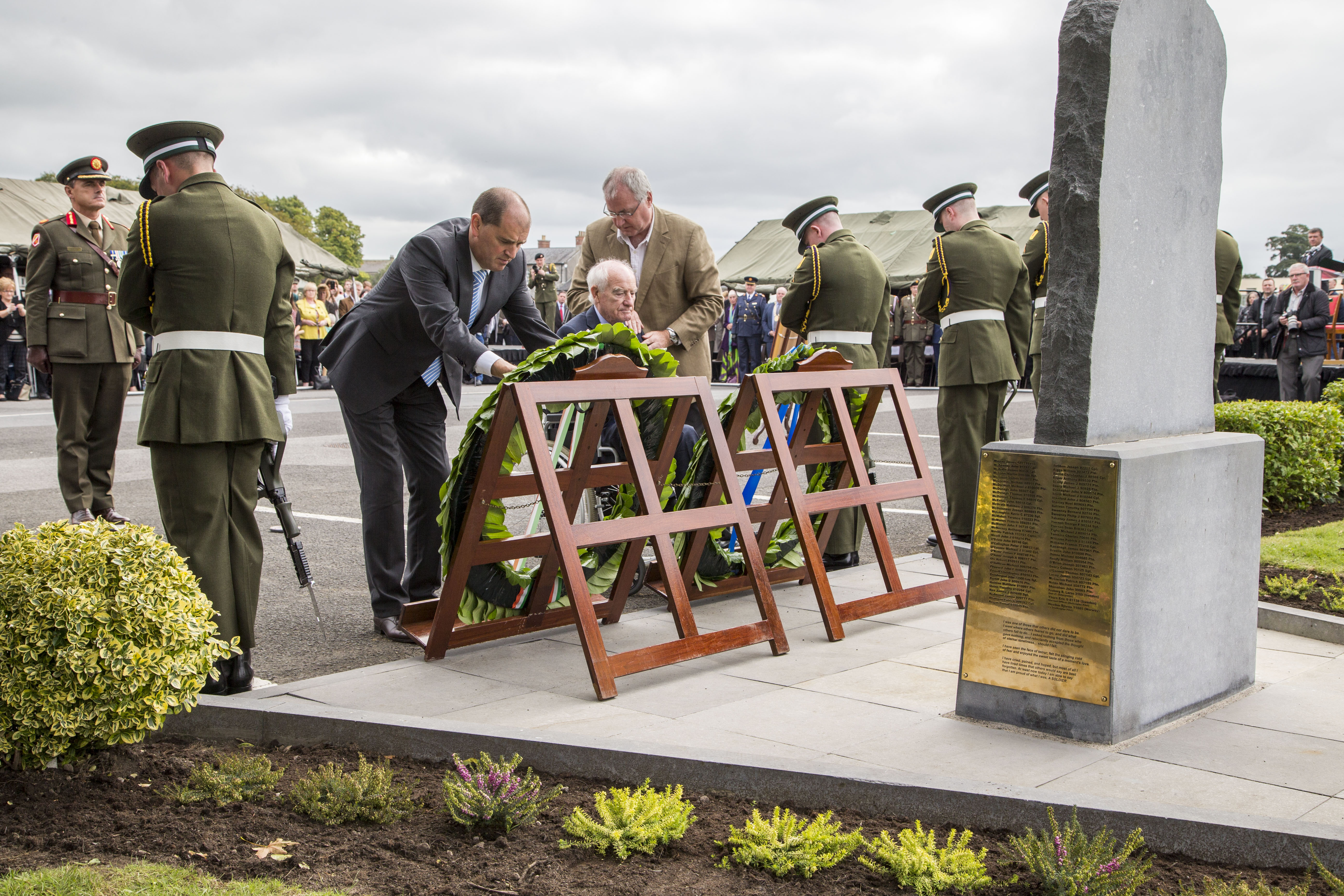 Jadotville Ceremony Custume Barracks, Athlone Commemorative monument to the soldiers who fought at Jadotville. The monument was unveiled by Mr. Willie O’Dea, Minister for Defence on 19th November 2005. The inscription in front of the Jadotville memorial plaque (not shown in picture) reads as follows: In honour of the Officers, NCOs and men of ‘A’ Company 35 Infantry Battalion United Nations Force in Congo (ONUC) who had the misfortune to suffer so much at Jadotville in the province of Katanga in September 1961. ‘A’ Company took responsibility for the UN Post at Jadotville on the 3rd of September. On the 9th of September a large force of Katangese Gendarmerie surrounded them and early on the morning of the 13th September the Company came under attack. Over the coming days until the 17th September they endured almost continuous attacks from ground and air. Despite determined leadership courageous resistance and the sustained efforts of 35th Infantry Battalion HQ to provide assistance, ‘A’ Company was taken into captivity on the 17th September. By this time ‘A’ Company had no water or food and several men had been wounded. ‘A’ Company remained in captivity until finally released on 25th October 1961. Their sacrifices in the service of peace are remembered with pride.